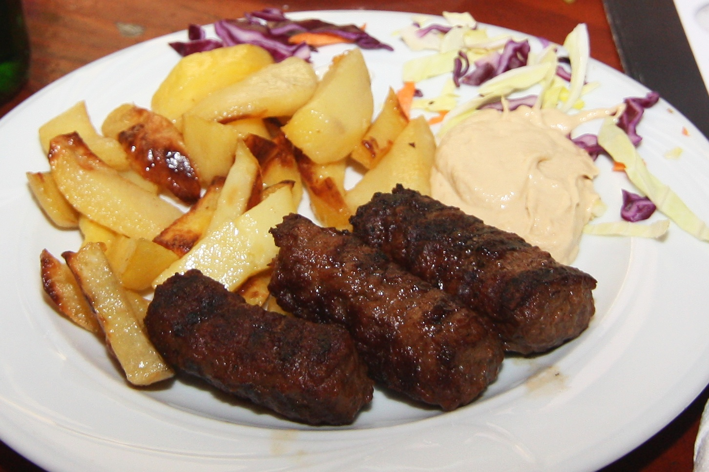 Romanian dish: mititei with potatoes and mustard